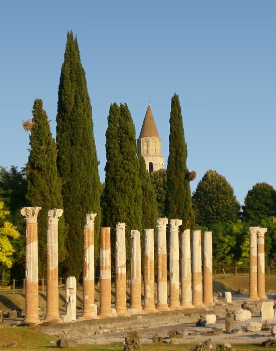 Ancient Roman columns in Aquileia - Italy. with Italian cypress (Cupressus sempervirens ).